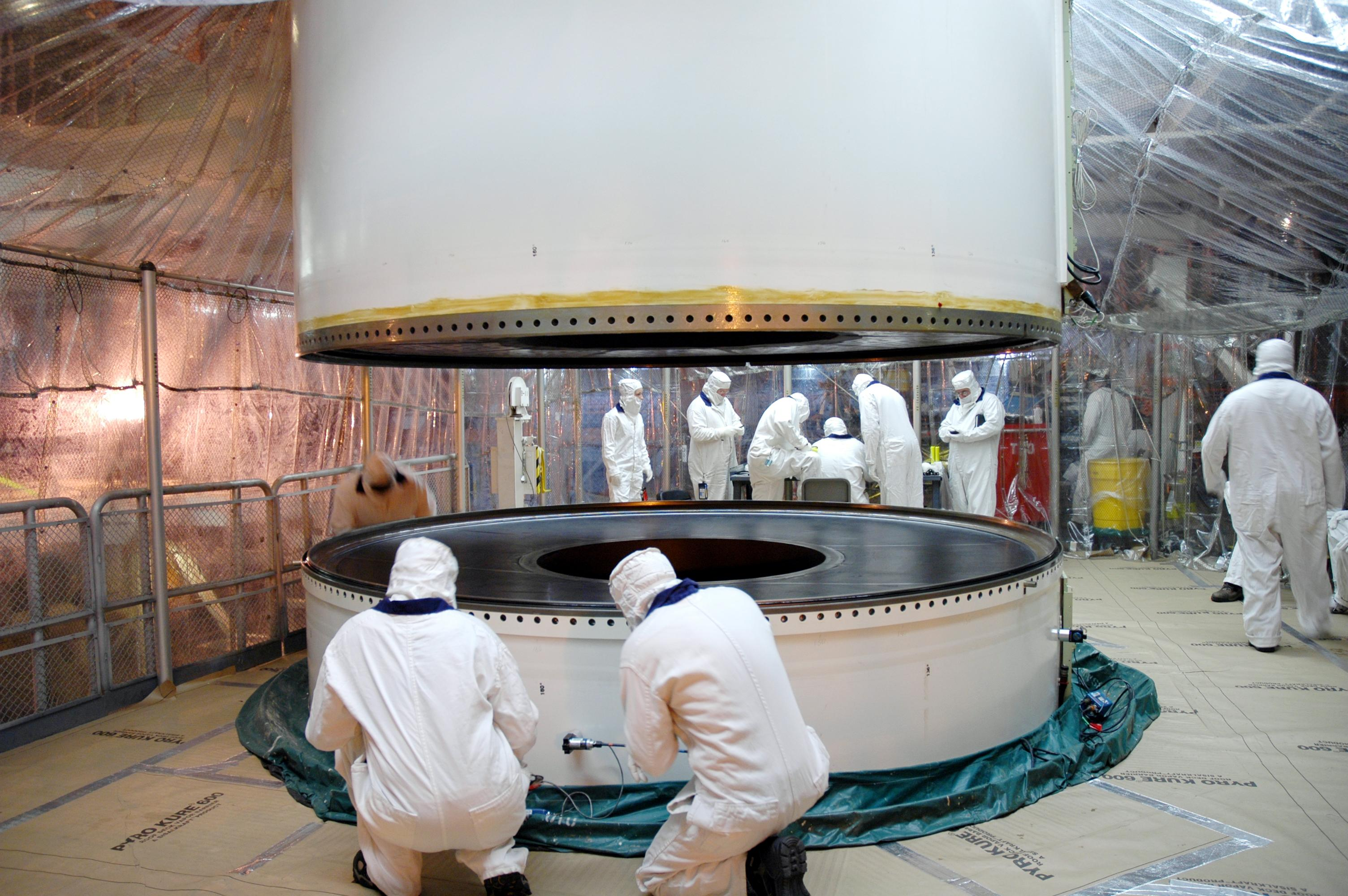 Solid Rocket Booster during stacking at processing facilityKENNEDY SPACE CENTER, FLA. - In a Vehicle Assembly Building (VAB) high bay, an aft center segment of a Solid Rocket Booster (SRB) is lowered toward an aft segment already secured to a Mobile Launch Platform. These segments are part of the right SRB for the Space Shuttle Return to Flight mission, STS-114. Two SRBs are stacked on a Mobile Launch Platform for each Shuttle flight and later joined by an External Tank. The twin 149-foot tall, 12-foot diameter SRBs provide the main propulsion system during launch. They operate in parallel with the Space Shuttle main engines for the first two minutes of flight and jettison away from the orbiter with help from the Booster Separation Motors, about 26.3 nautical miles above the Earth’s surface.